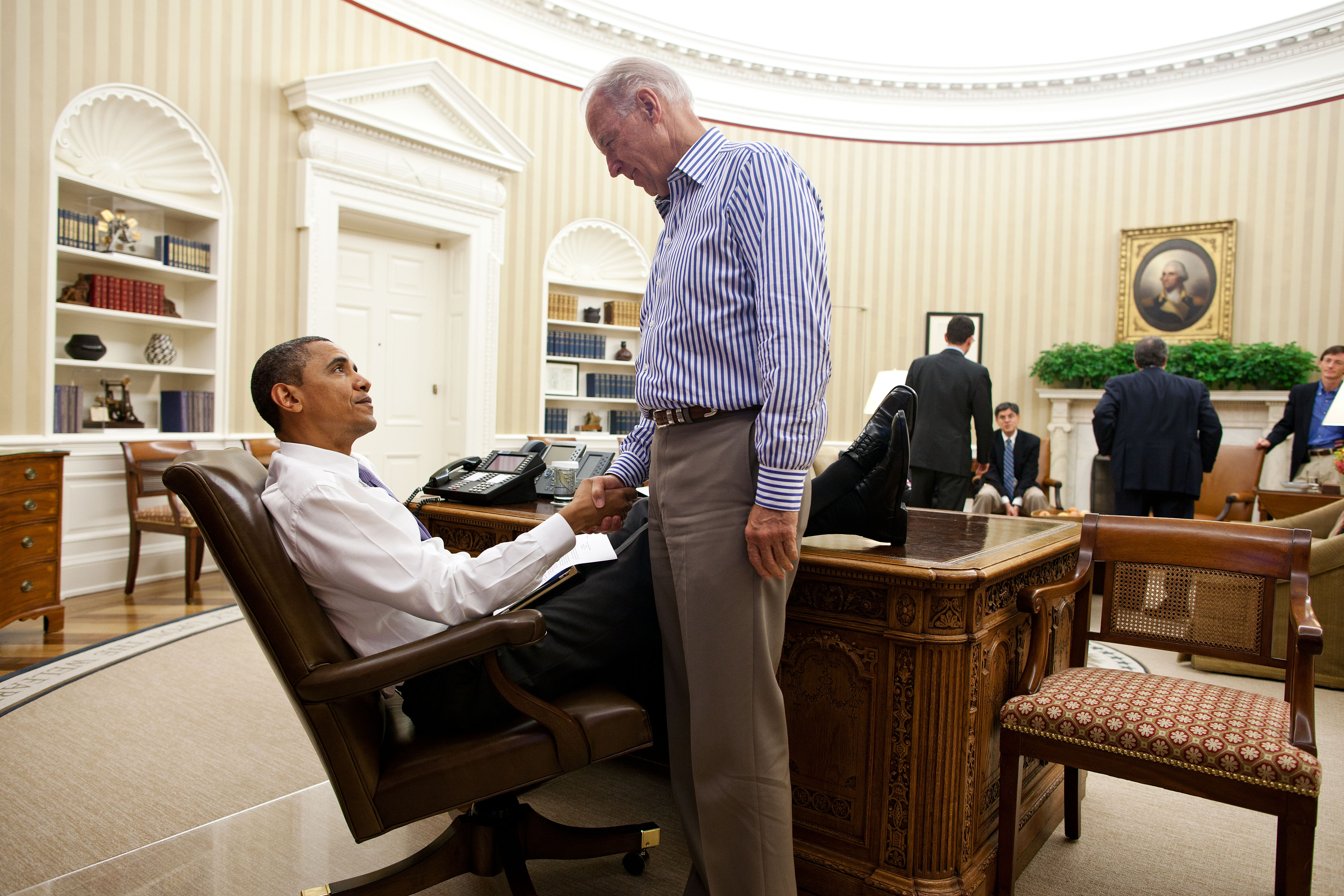 President Barack Obama and Vice President Joe Biden shake hands in the Oval Office following a phone call with House Speaker John Boehner securing a bipartisan deal to reduce the nation's deficit and avoid default, Sunday, July 31, 2011. (Official White House Photo by Pete Souza)